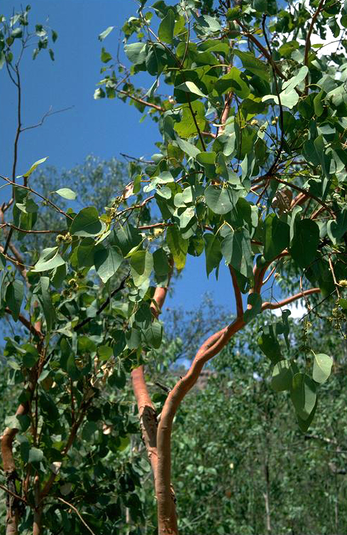 Foliage of Eucalyptus bigalerita growing near Katherine in the Northern Territory